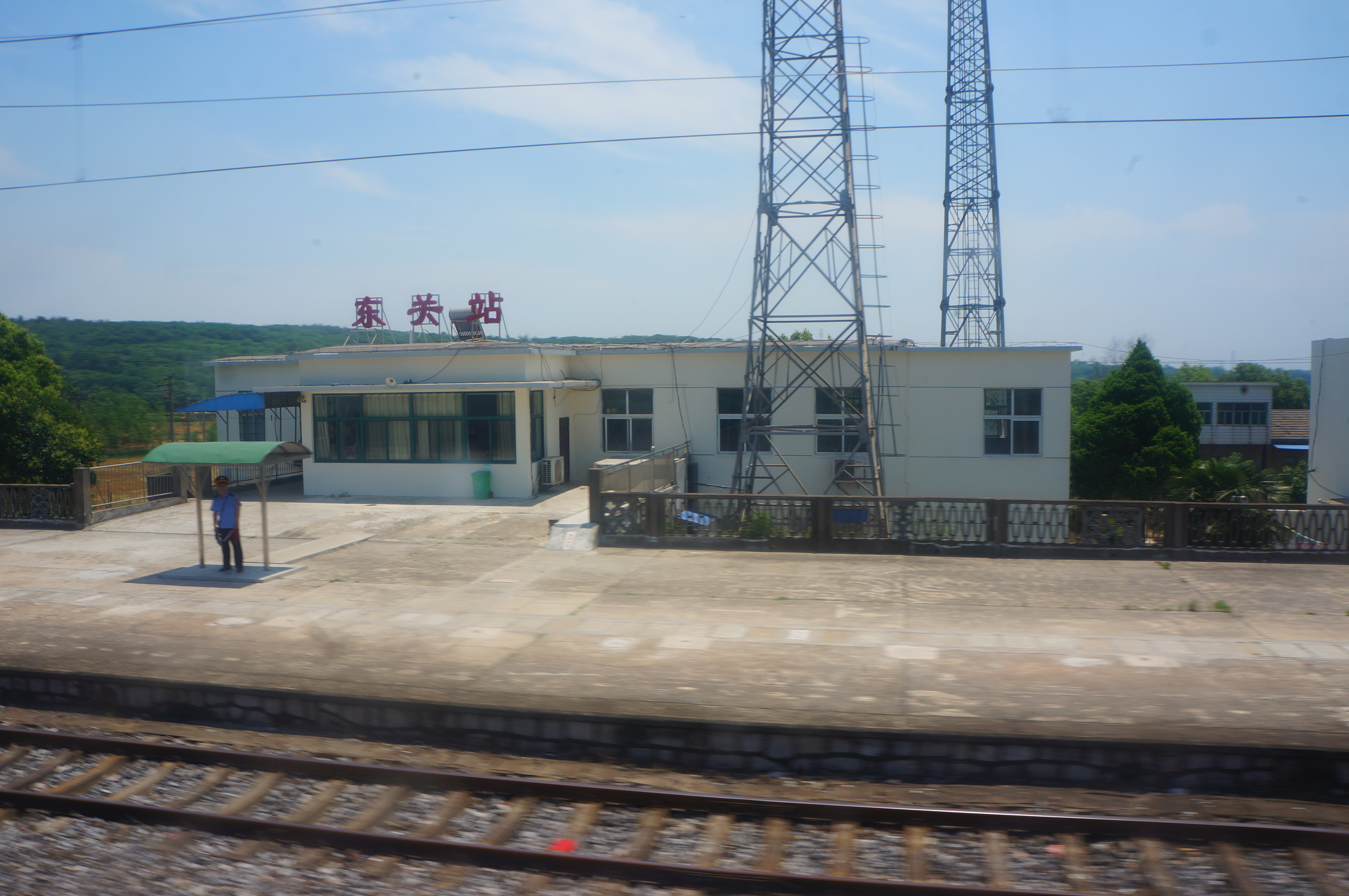 201705 Conductor of Dongguan Station. Still the similar style